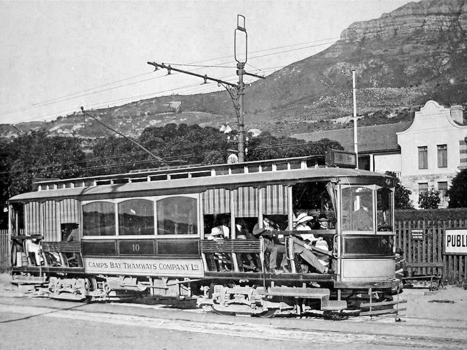 A Camps Bay tram, with a glassed-in centre screen, by The Rotunda (now The Bay Hotel), Camps Bay.